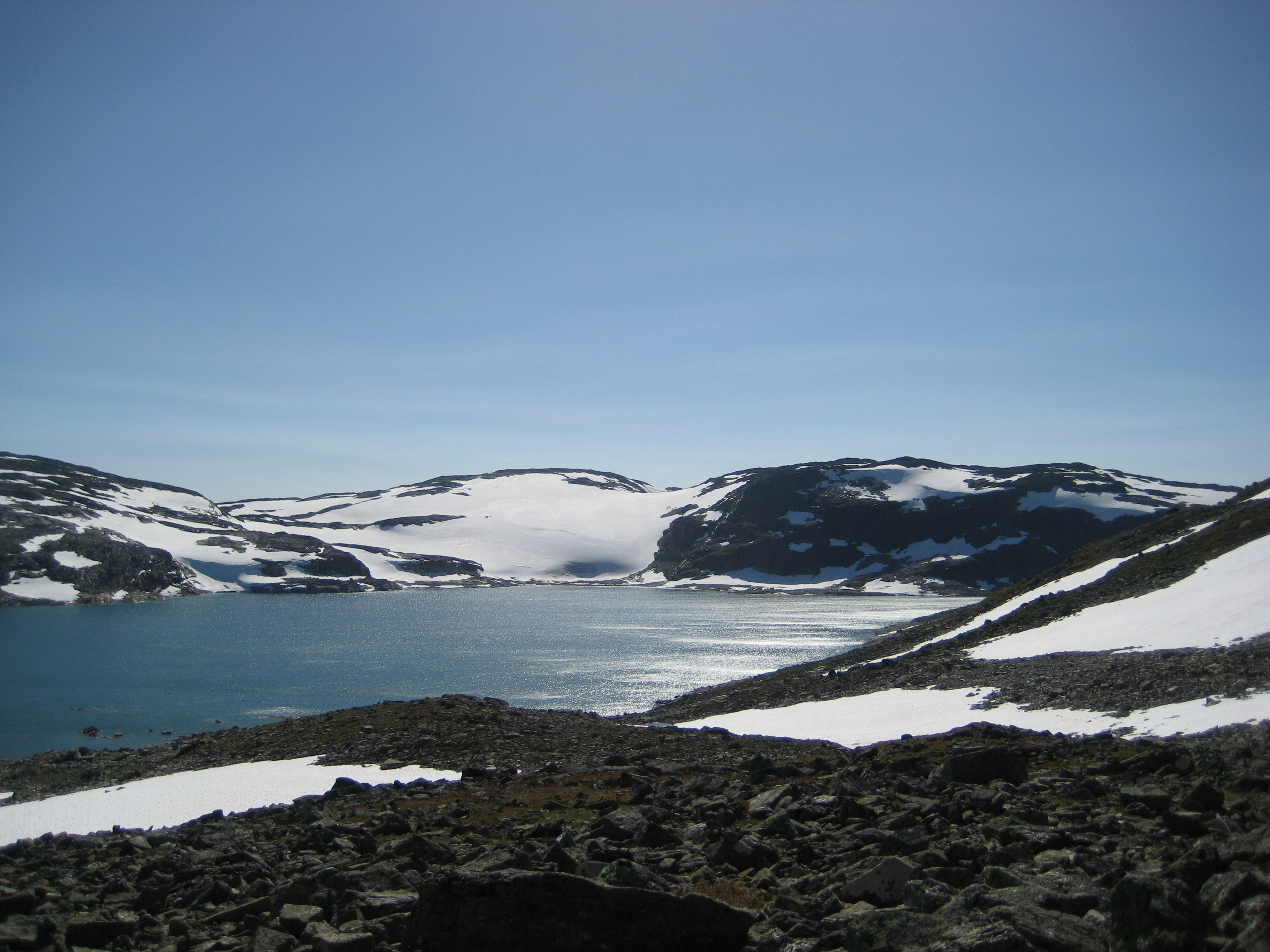 View towards Svartavatnet and Svartavassbreen